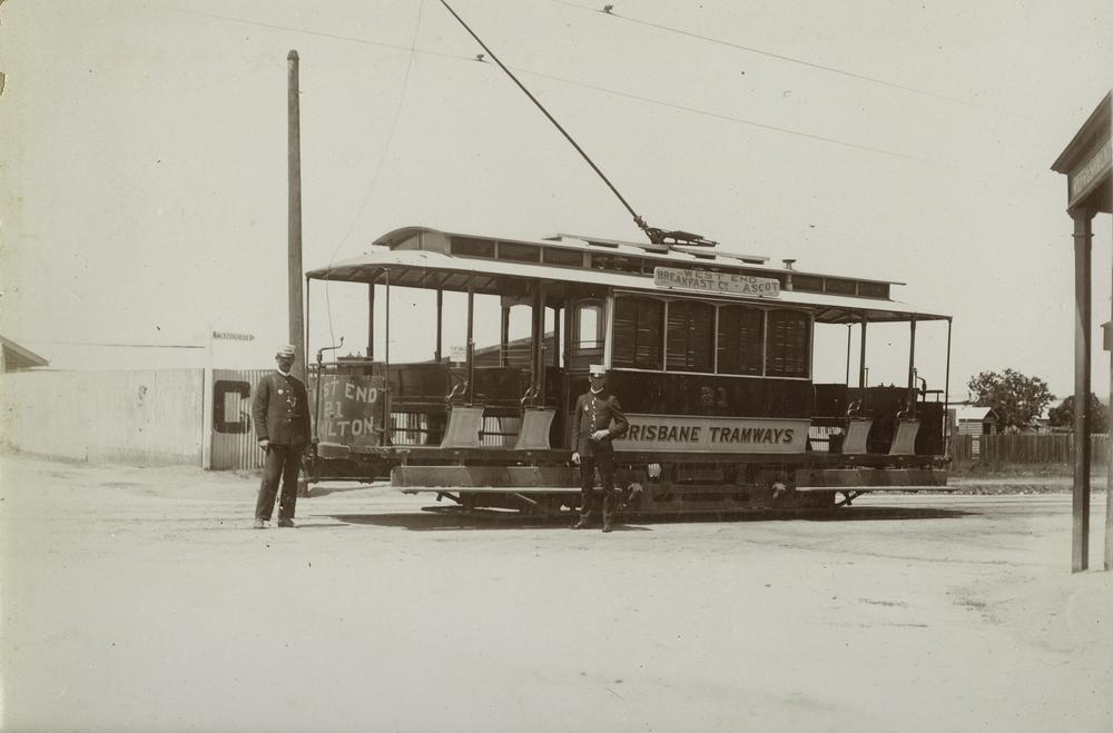 Brisbane tram and conductors at the Ascot terminus, Brisbane, 1908 Advertising on the side of the tram states that it belonged to Brisbane Tramways and plied the route from West End to Breakfast Creek and Ascot.